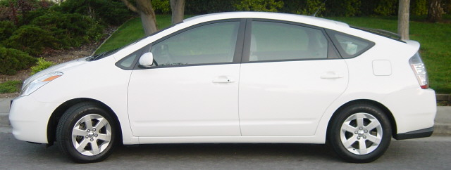 Driver side view of 2004 Toyota Prius. Notice the aerodynamic roof line that is responsible for its 0.26 drag coefficient. The roof of the car is quite tall due to the shape of the streamline. The nose of the car is quite short in comparison to other cars.